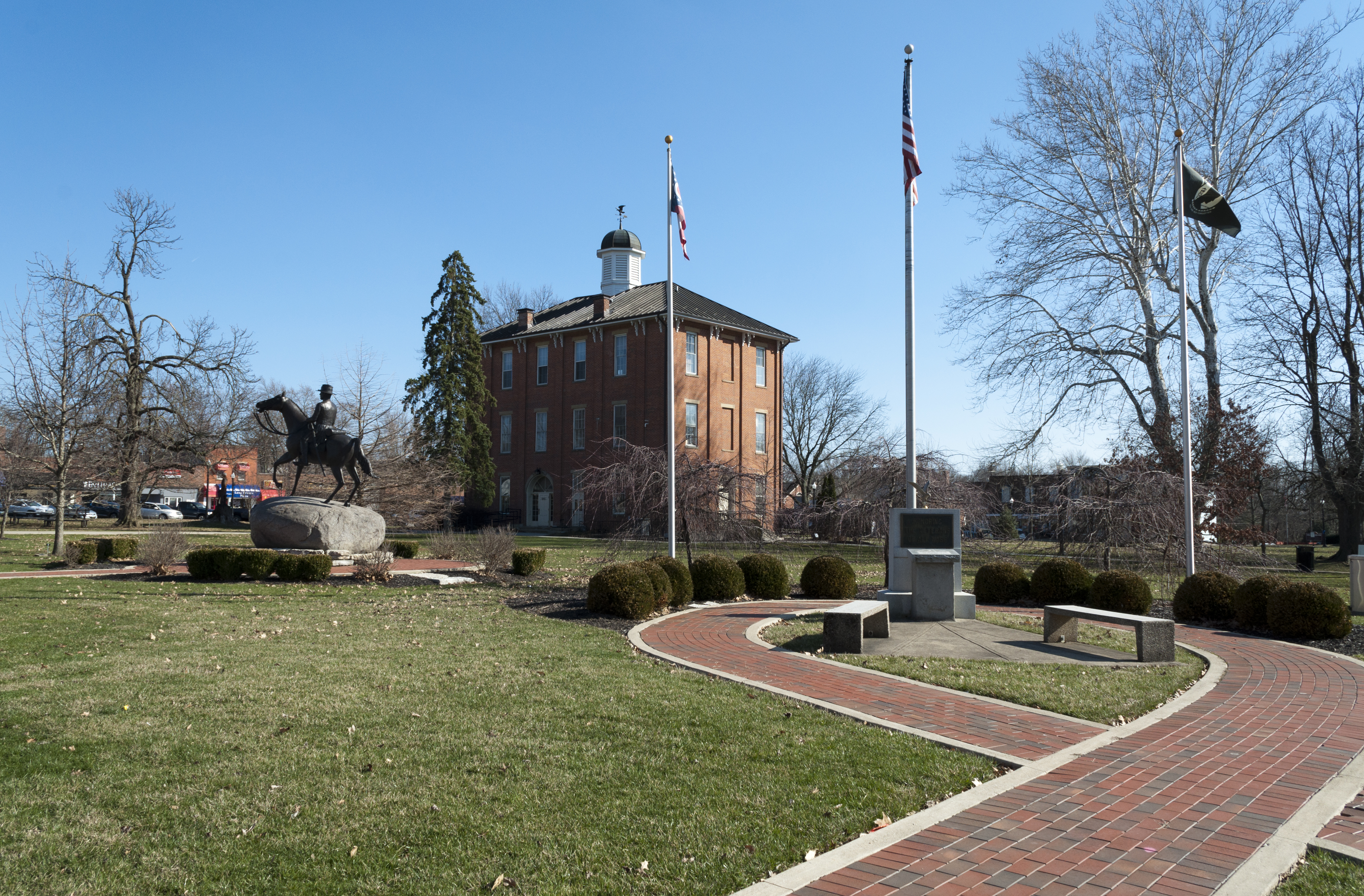 Old Sunbury Town Hall built in 1868 is listed on the National Register of Historic Places. Photographed in March 2018 from the northwest.